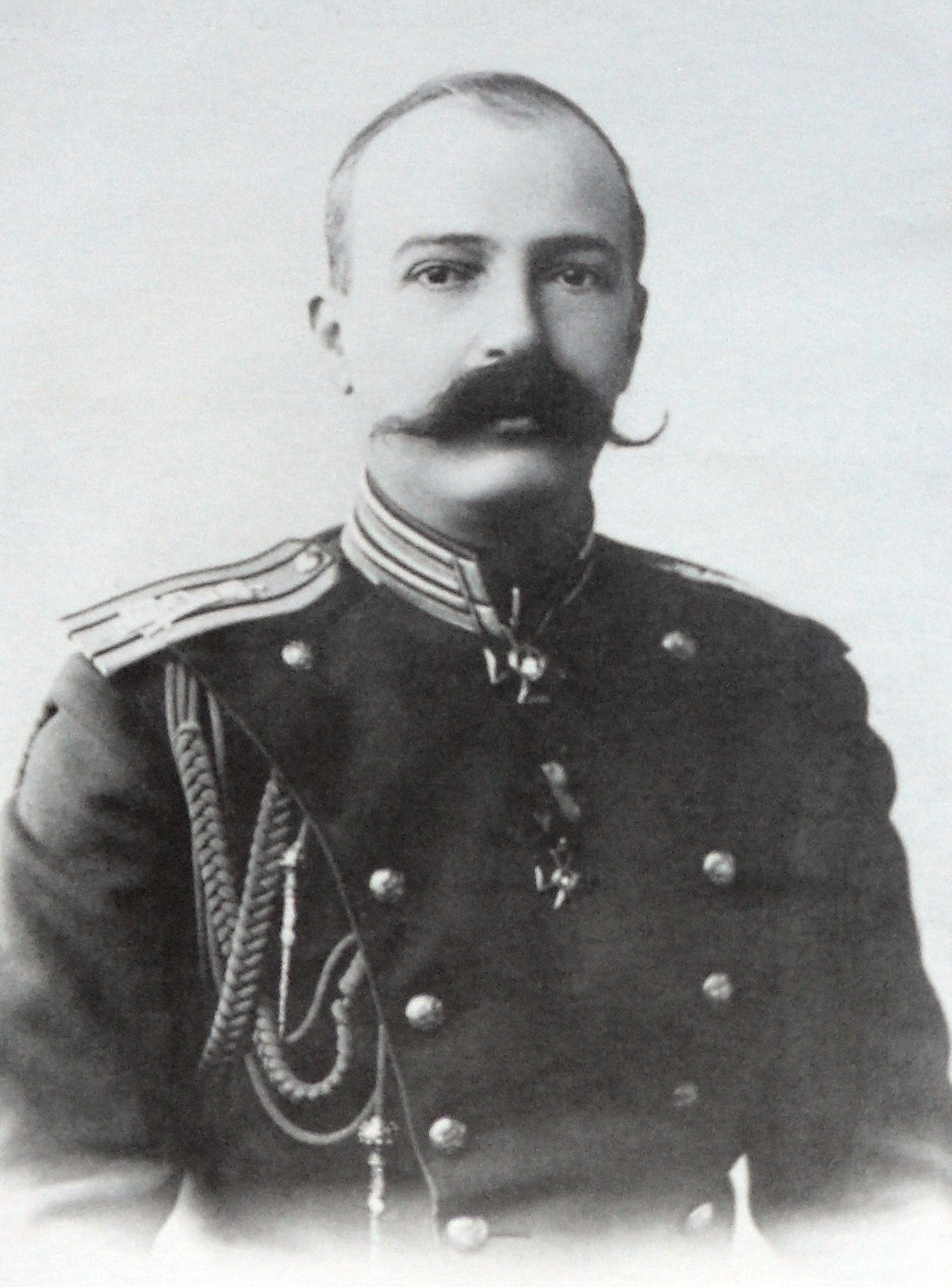 Grand duke George Mikhailovich of Russia, 1901-1903